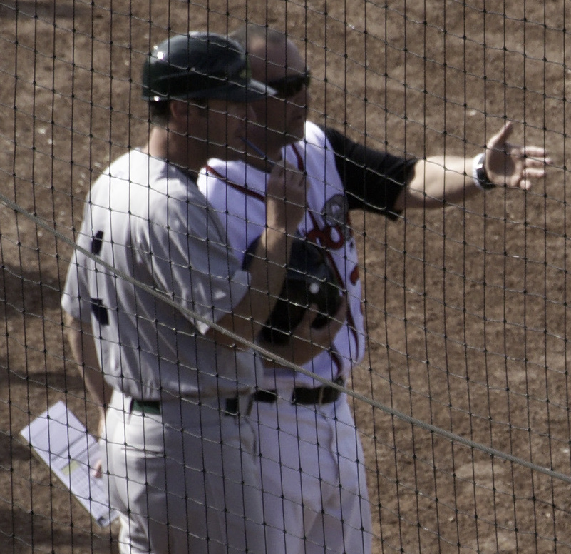 Josh Tamargo, Ryan Christenson and a third man stand on the field in Lansing in 2013.